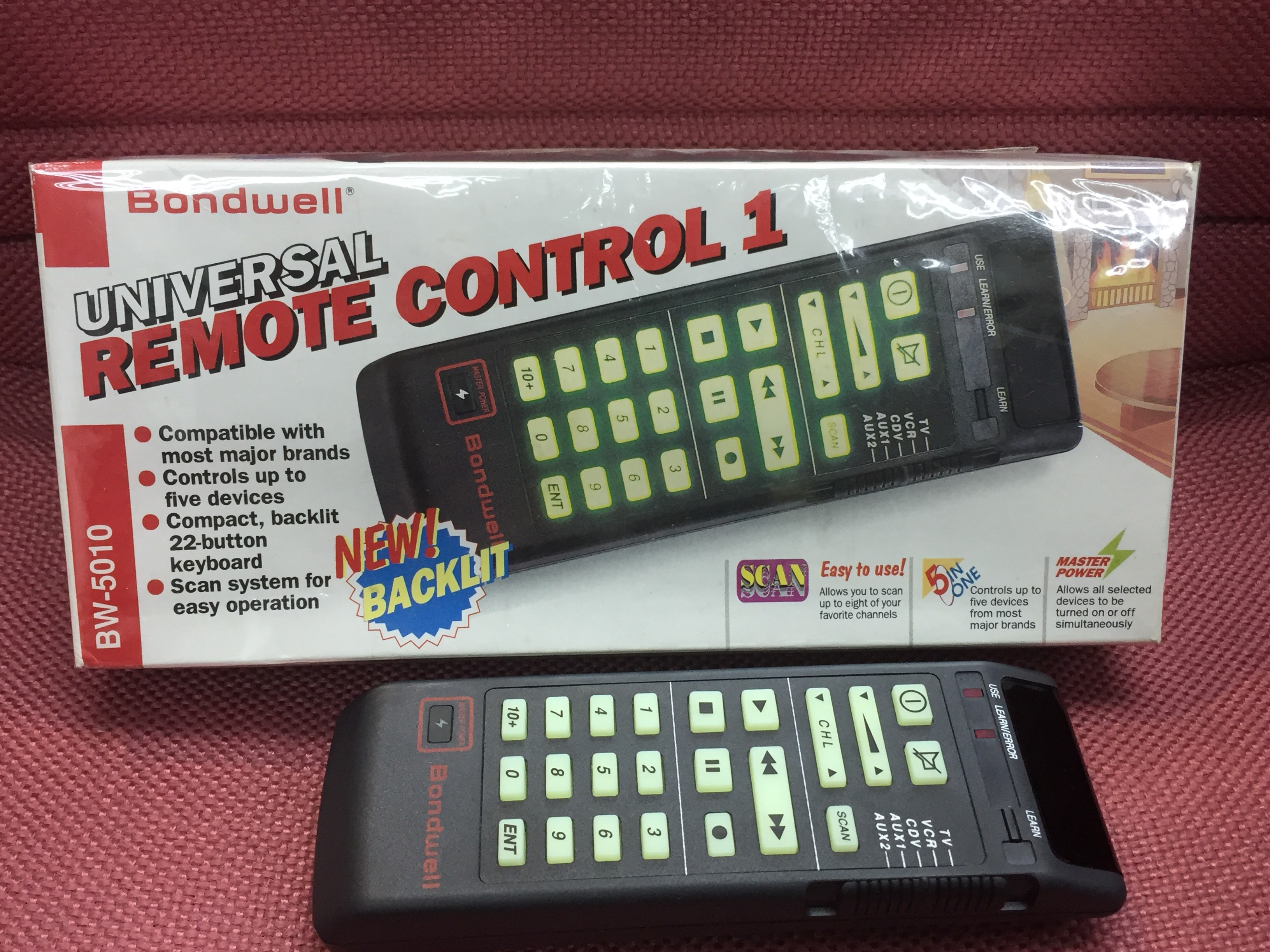 Bondwell 5010 universal remote controller